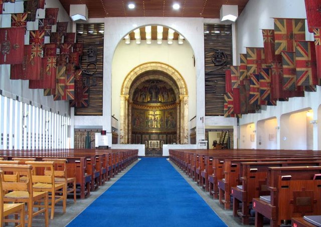 Guards Chapel, Wellington Barracks - East end